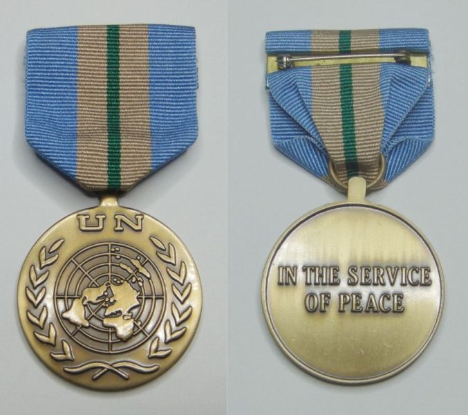 The medal given to UNMEE participants (US version)